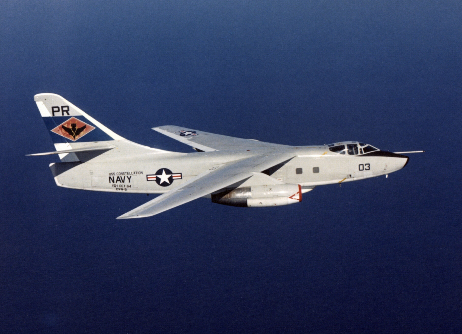 A U.S. Navy Douglas EA-3B Skywarrior (BuNo 146452) from Fleet Reconnaissance Squadron VQ-1 Det.64 World Watchers in flight over the South China Sea. VQ-1 Det.64 was assigned to Attack Carrier Air Wing 9 (CVW-9) aboard the aircraft carrrier USS Constellation (CVA-64) for a deployment to the Western Pacific and the Indian Ocean from 21 June to 23 December 1974.